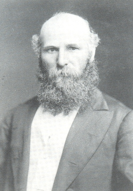 James Munro, Premier of Victoria, Australia, Nov 1890 - Feb 1892.